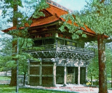 Nio-Mon gate, which occupied the site now occupied by the Japanese House and Garden .